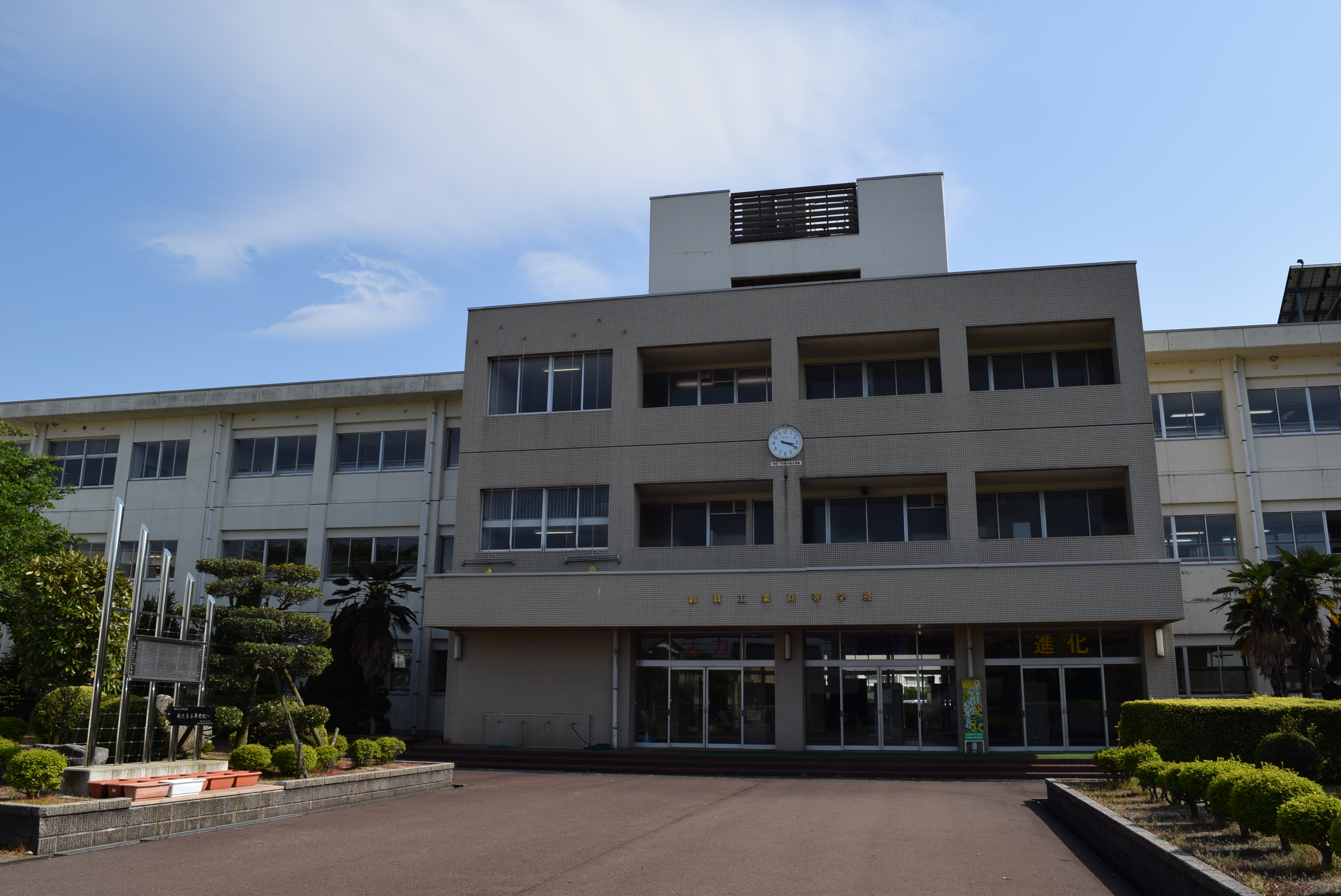 school photo